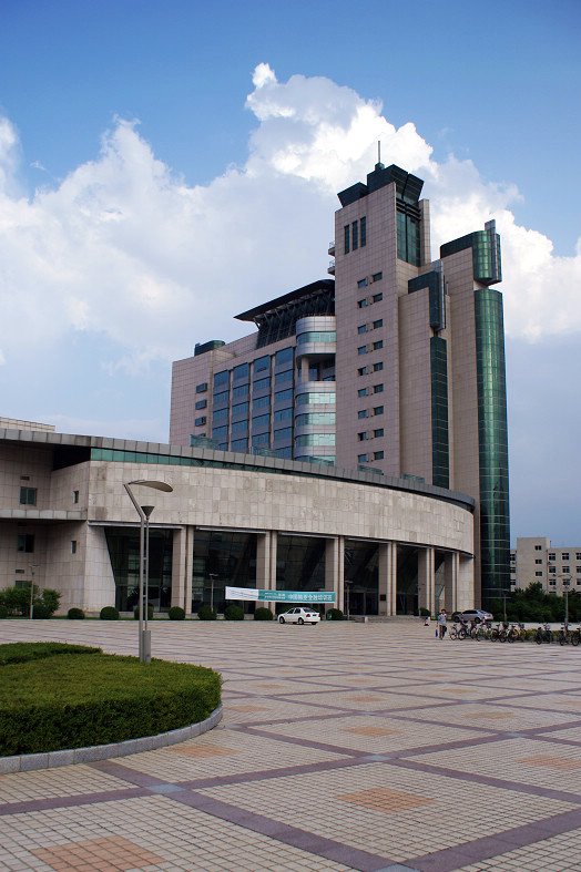 The dongrong officebuilding in JLU